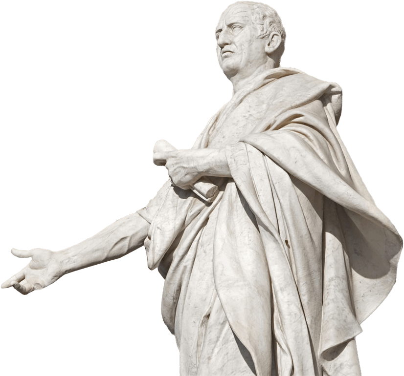 Cicero, Palazzo di Giustizia